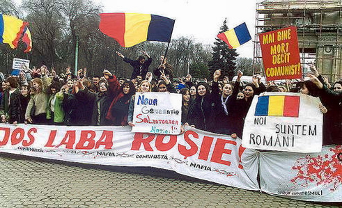 Demonstrations in Chisinau in the year 2003